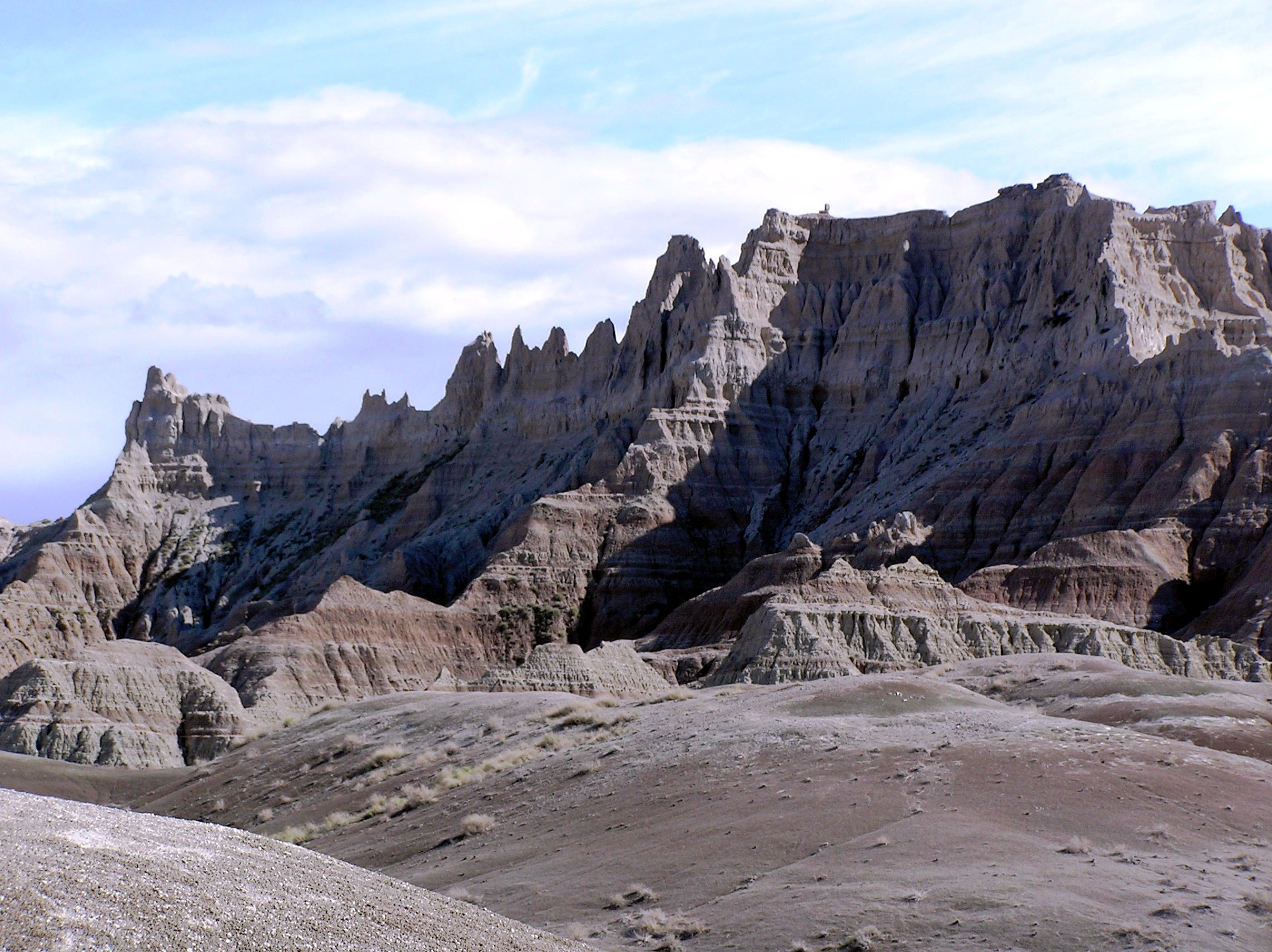 Badlands National Park, South Dakota.